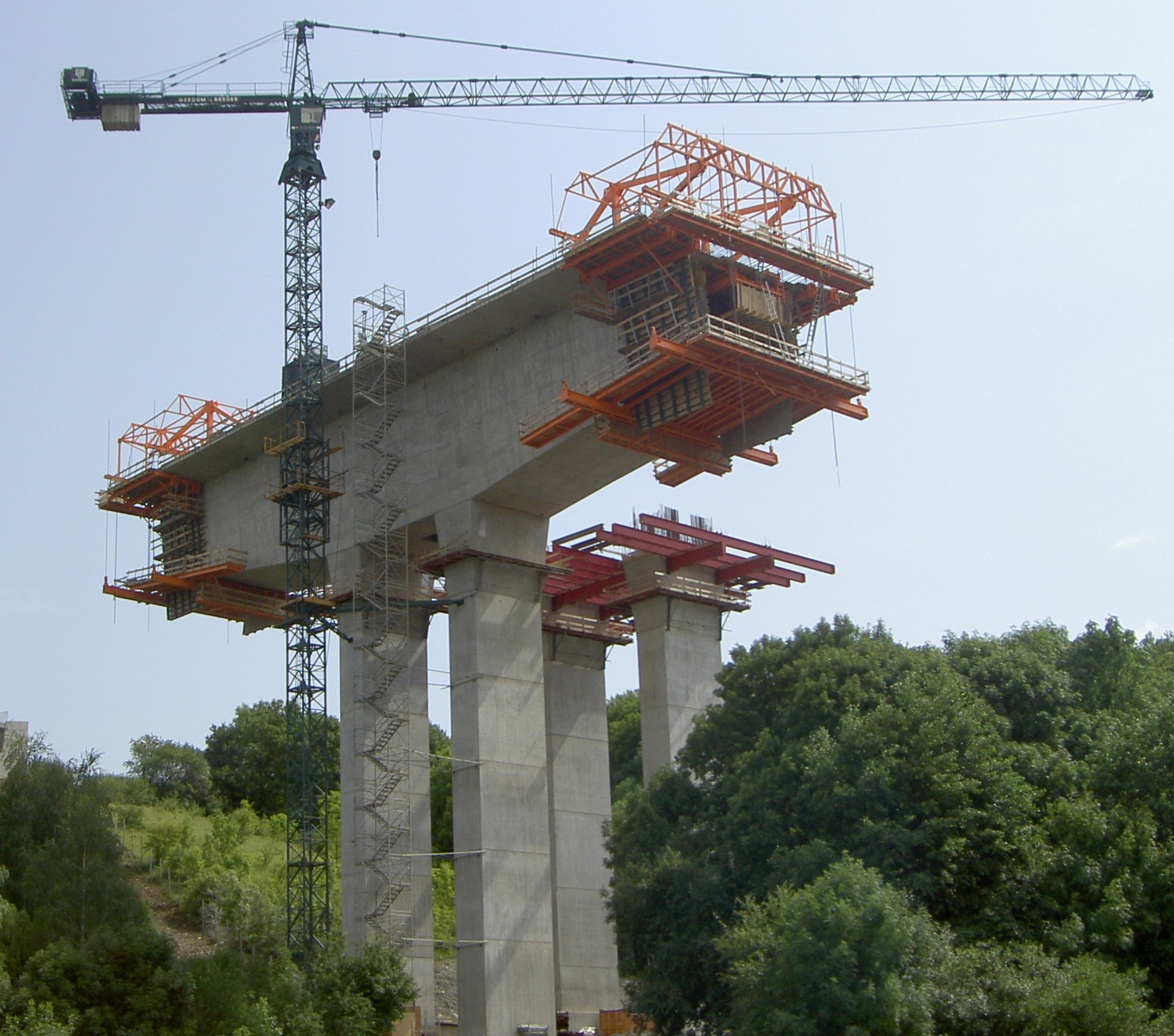 Weidatalbridge, cantilever with travelling formwork